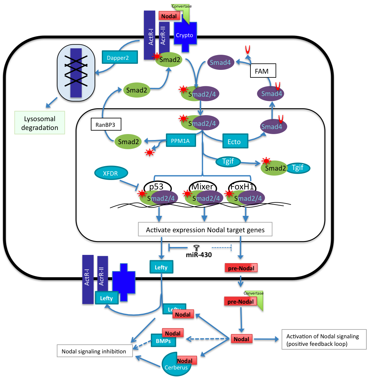 Description of the Nodal signaling pathway.